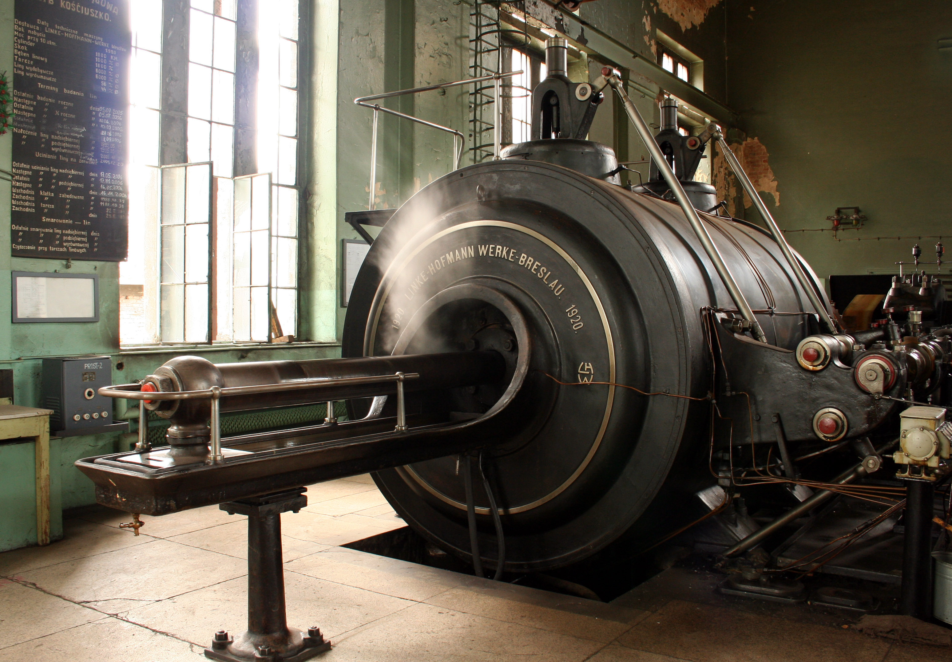 Steam engine from "Ignacy" coal mine, Rybnik, Niewiadom, Upper Silesia, Poland